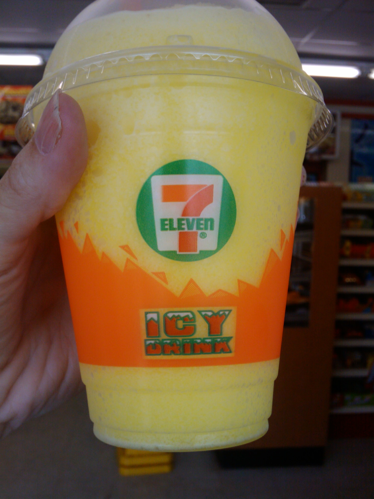 Norman OK 7-11